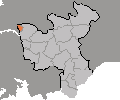 Map of Songrim, Hwanghae-pukto, DPRK, 2006